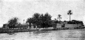 Site traditionally described as the tomb of Ezra, near Nineveh. From the 1901-1906 Jewish Encyclopedia, now in the public domain. Category:Jewish Encyclopedia images